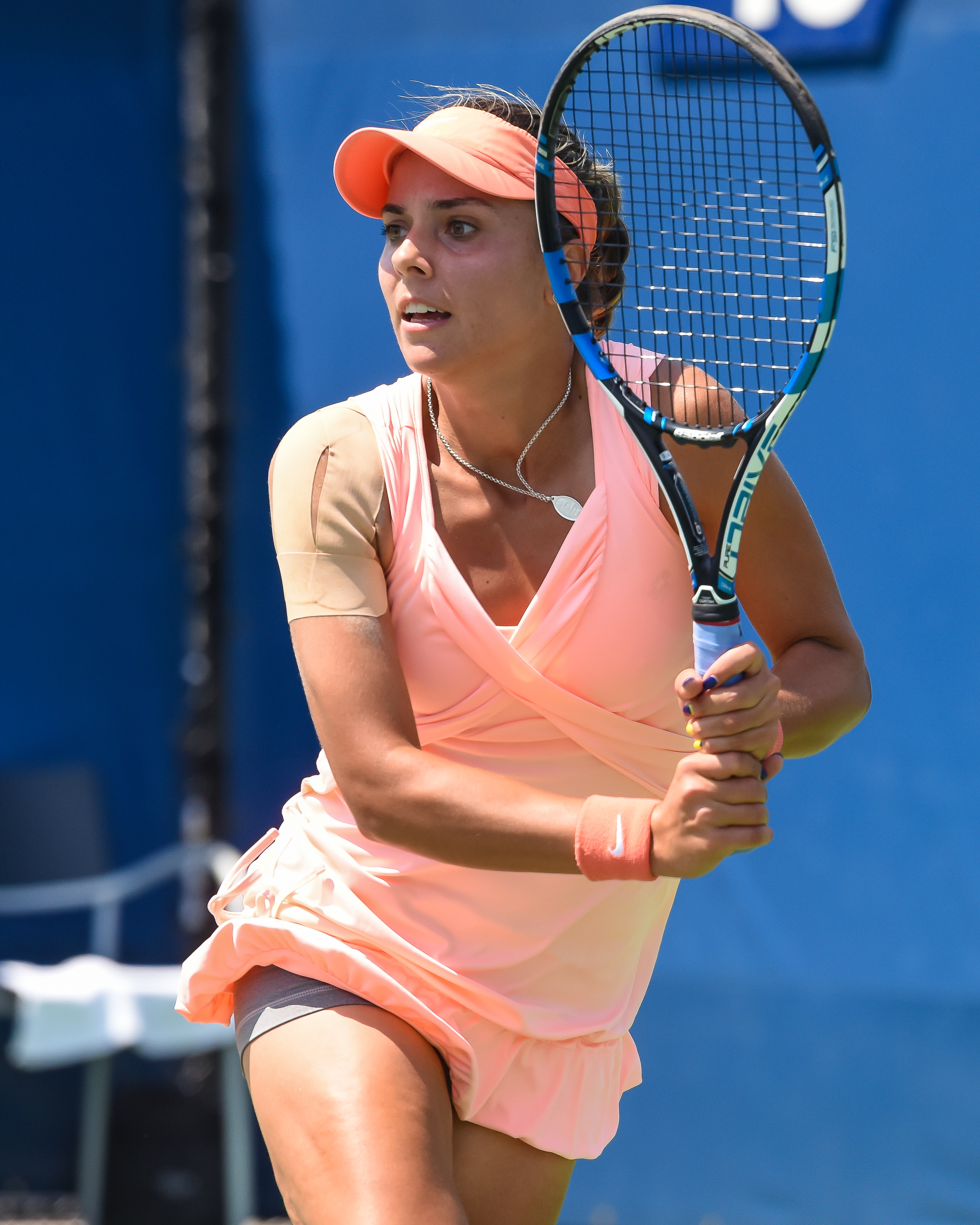 August 24, 2017 Court 15 Flushing, NY Viktoriya Tomova.